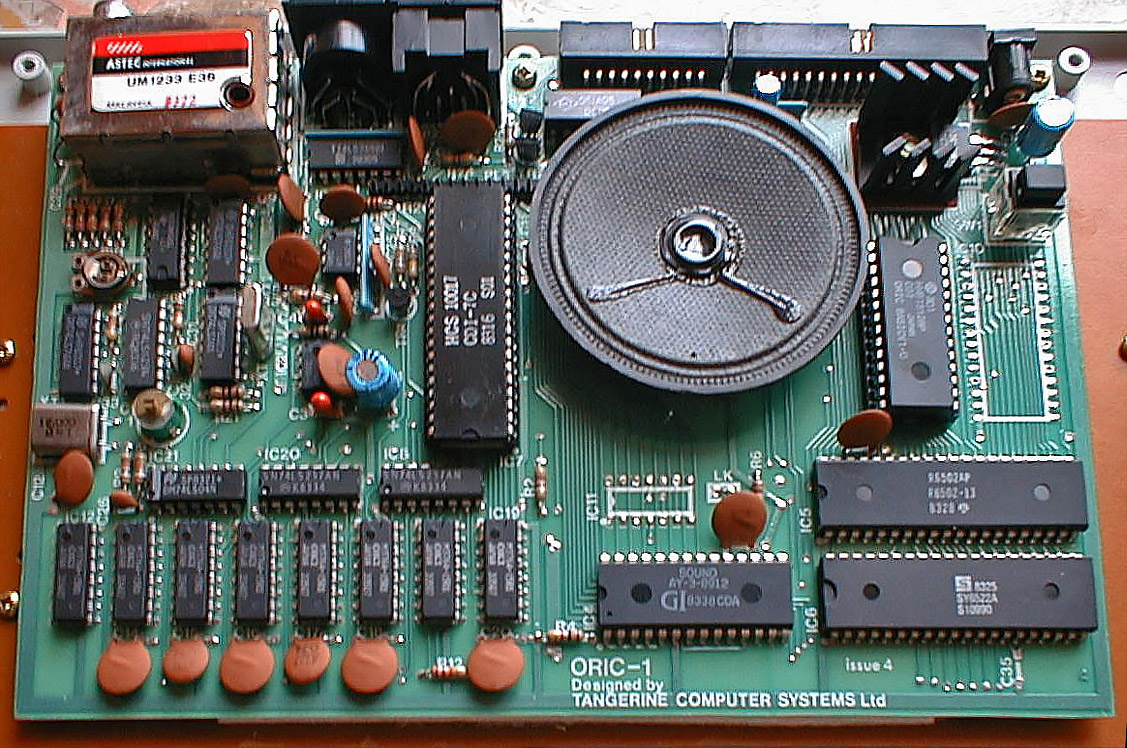 Motherboard of a Oric 1 computer